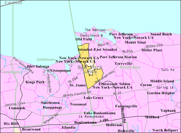 U.S. Census 2000 reference map for Stony Brook